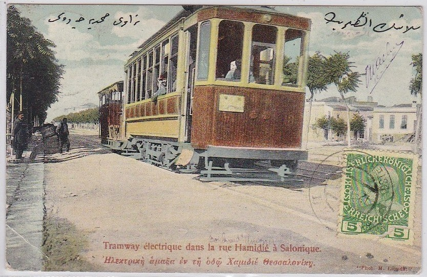 Tram on Hamidie Street in Salonica, Ottoman Postcard